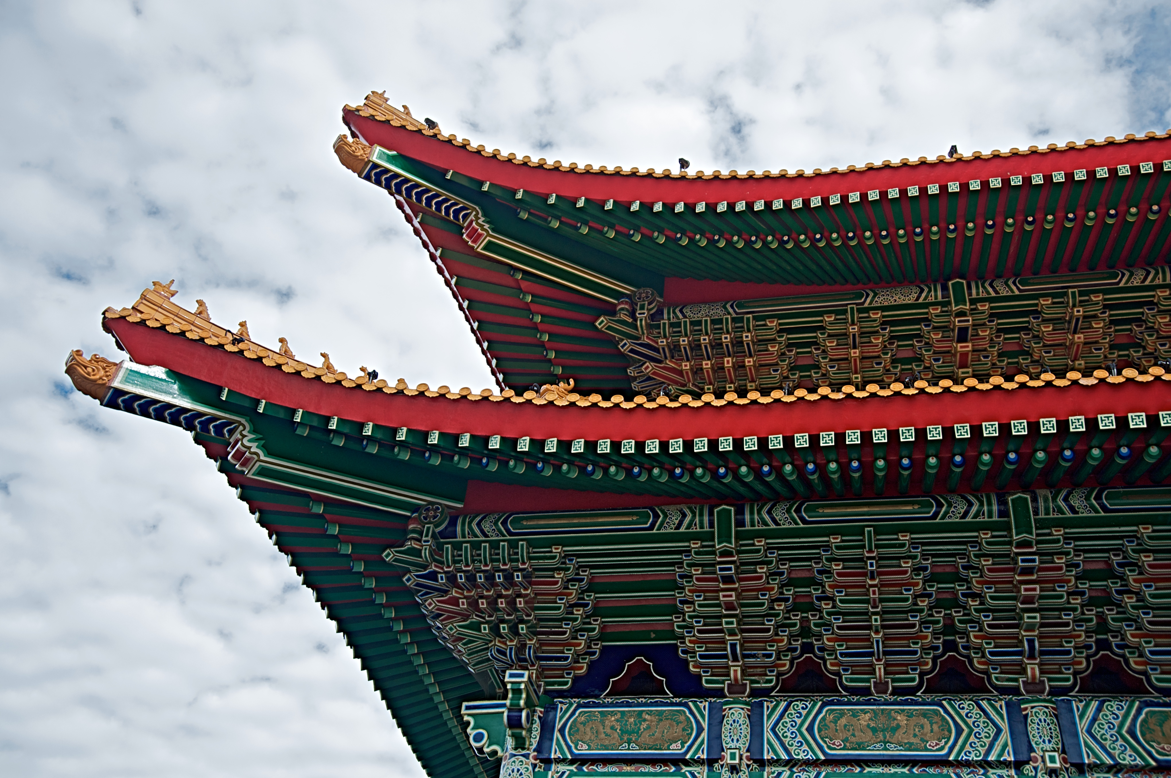 Interlocking wooden brackets (Dougong) employed in the construction of the National Theater at the Liberty Square in Taipei, Taiwan